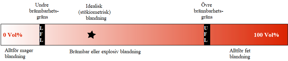 Graphical scheme of explosion limits and ideal concentrations in an atmosphere containing gases, fumes or dust particles; labels in Swedish